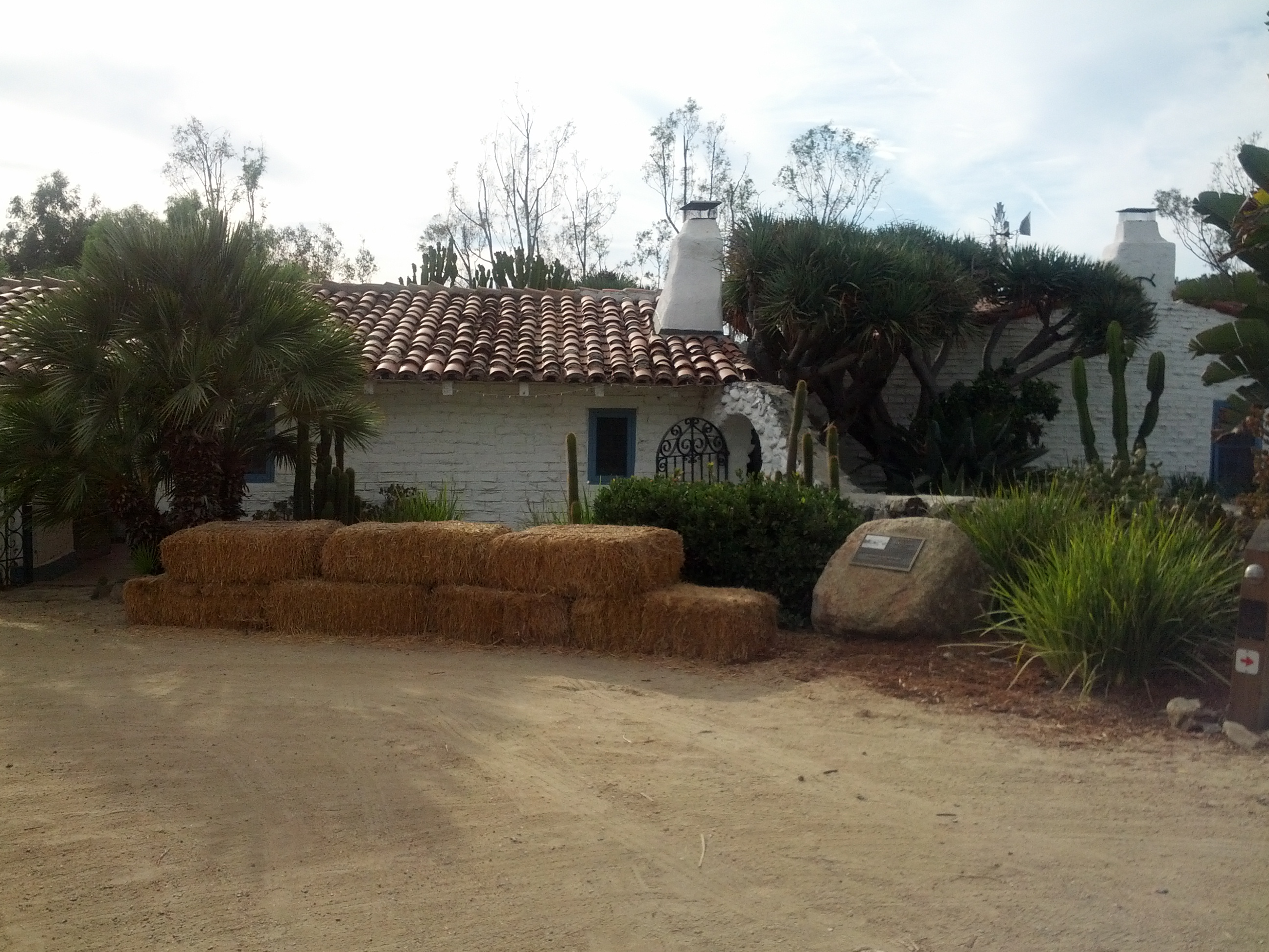 Rancho De Los Kiotes